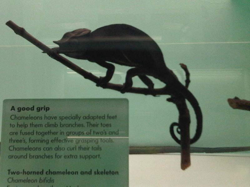 Taxidermied Furcifer bifidus (synonym: Chameleo bifidus) at the Natural History Museum in London, England.